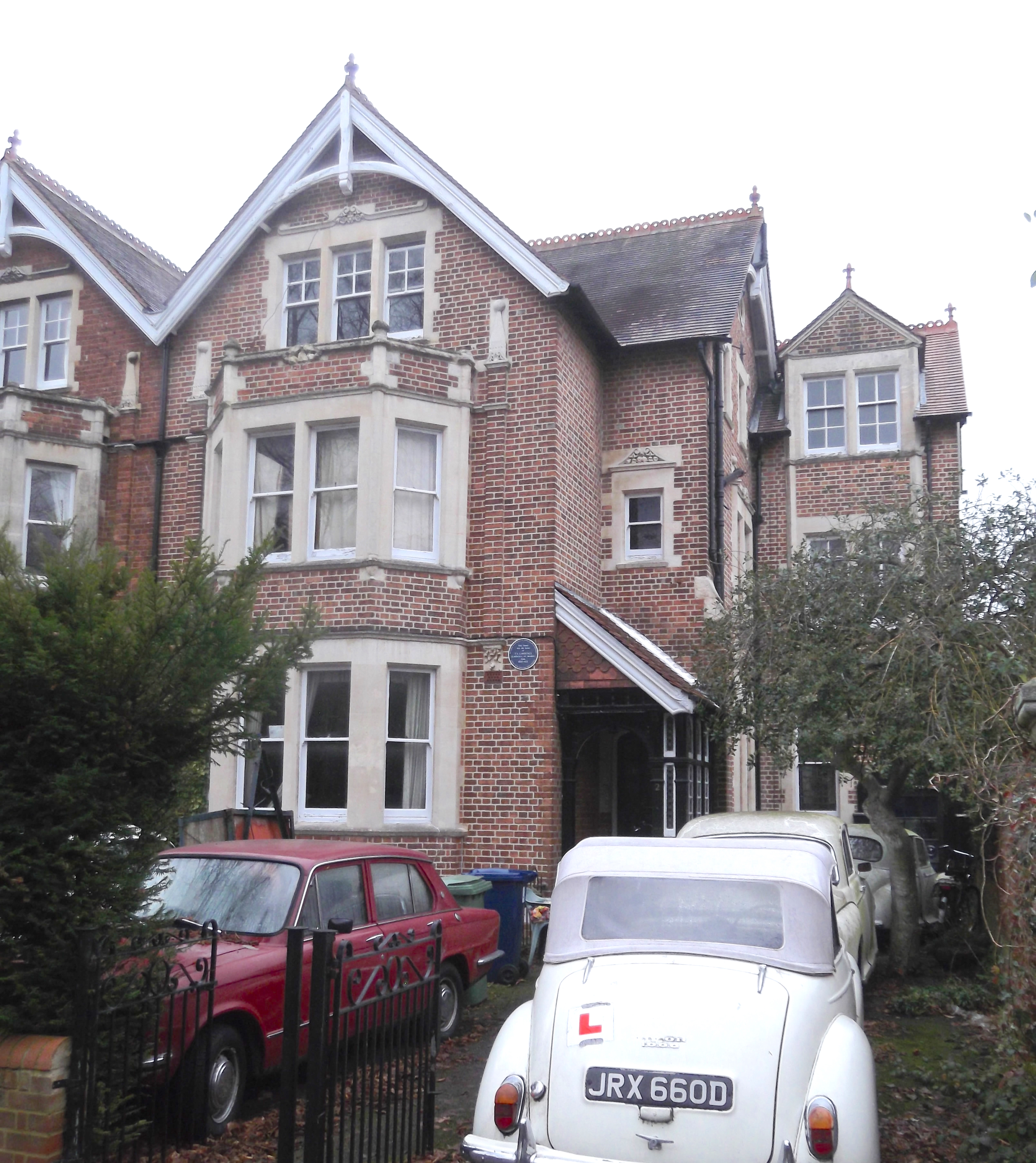 The former home of T. E. Lawrence in Polstead Road, North Oxford, England.